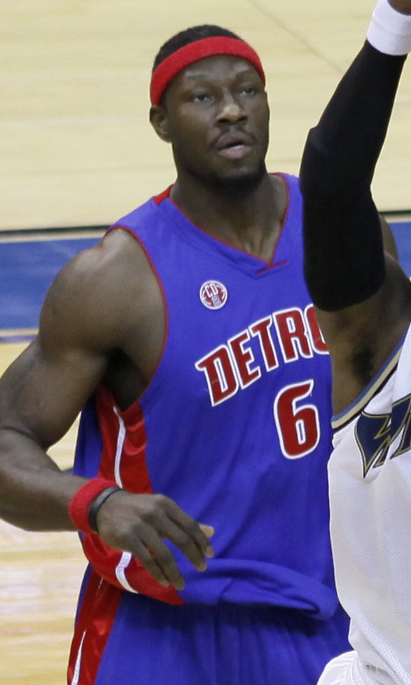 Washington Wizards v/s Detroit Pistons November 14, 2009 at Verizon Center in Washington, D.C.